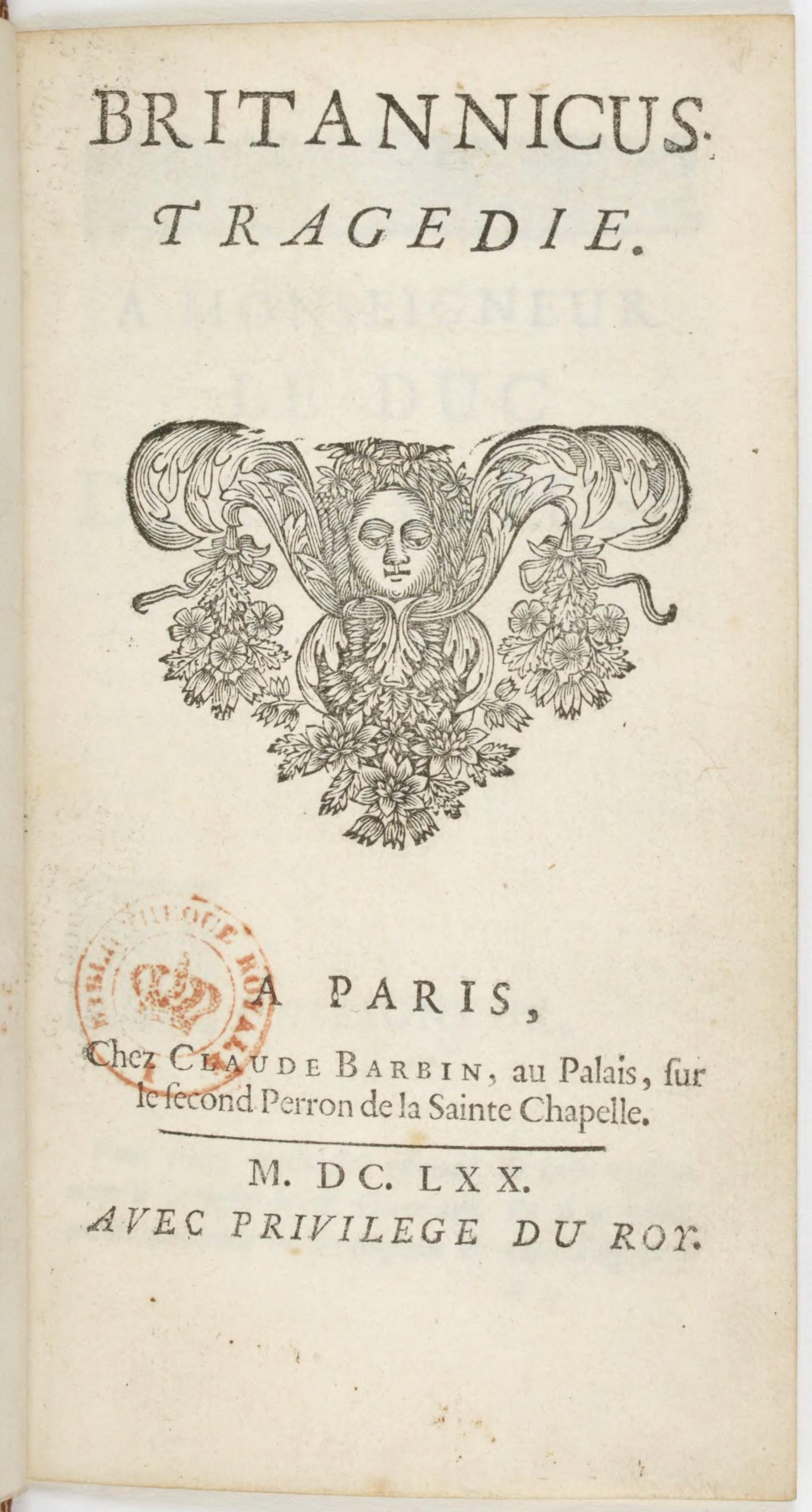 Front page of the first edition of Britannicus by Jean Racine (1670)